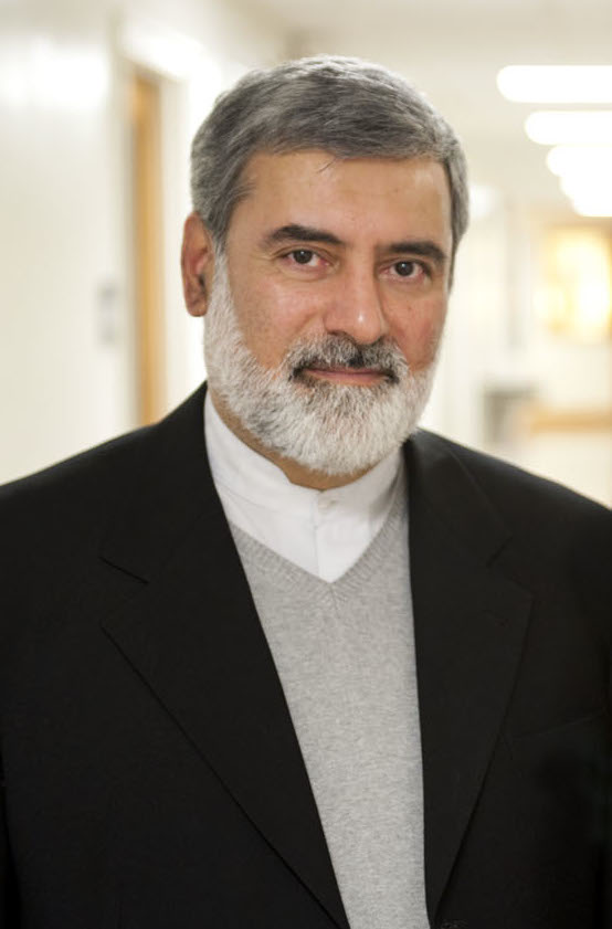 Mohsen Kadivar- Jan 2012- Duke University- Durham, NC